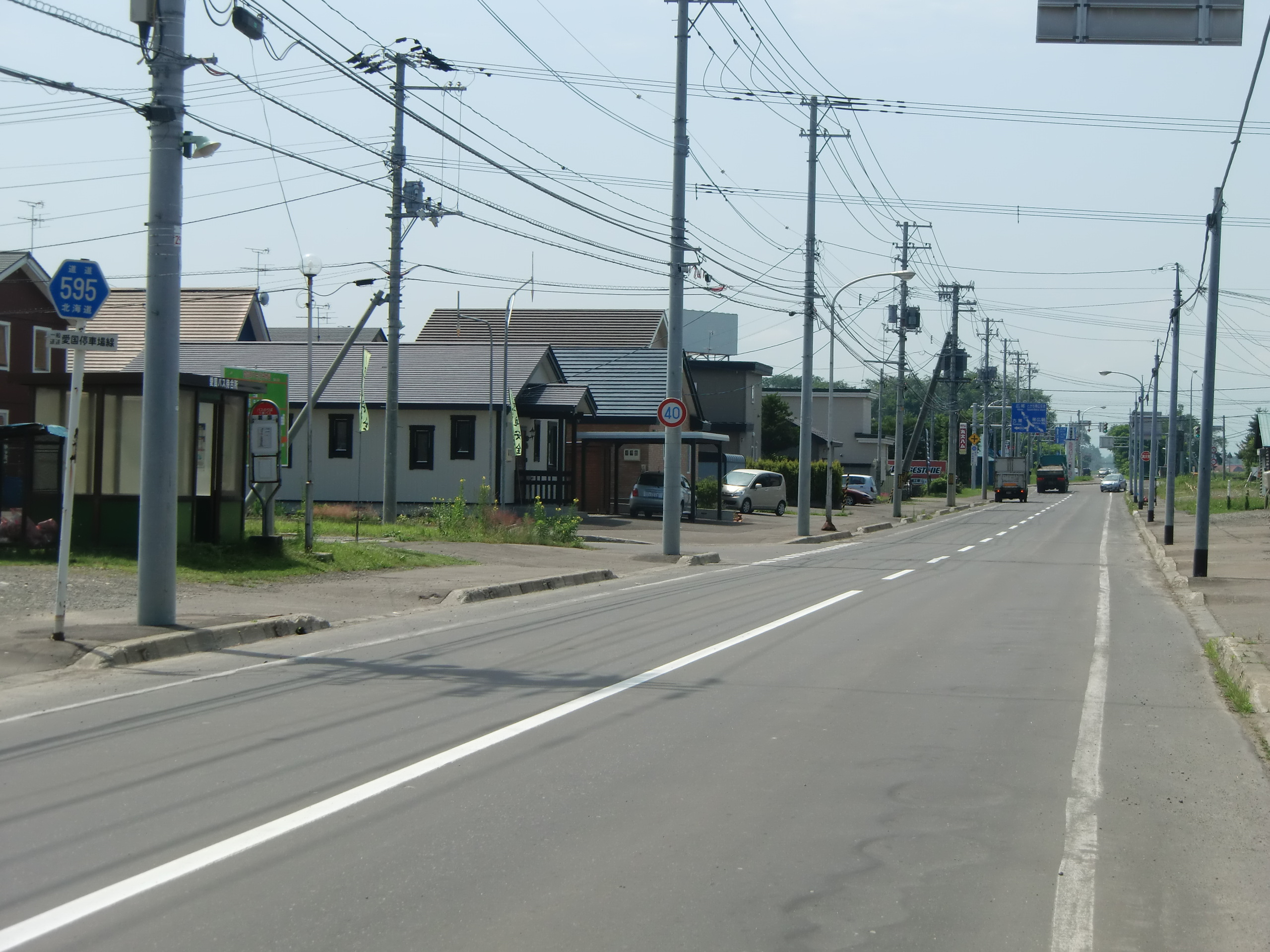 Hokkaido prefectural road 595(Aikoku-teishajo line) in Aikokucho-kisen, Obihiro-city, Hokkaido, JAPAN.